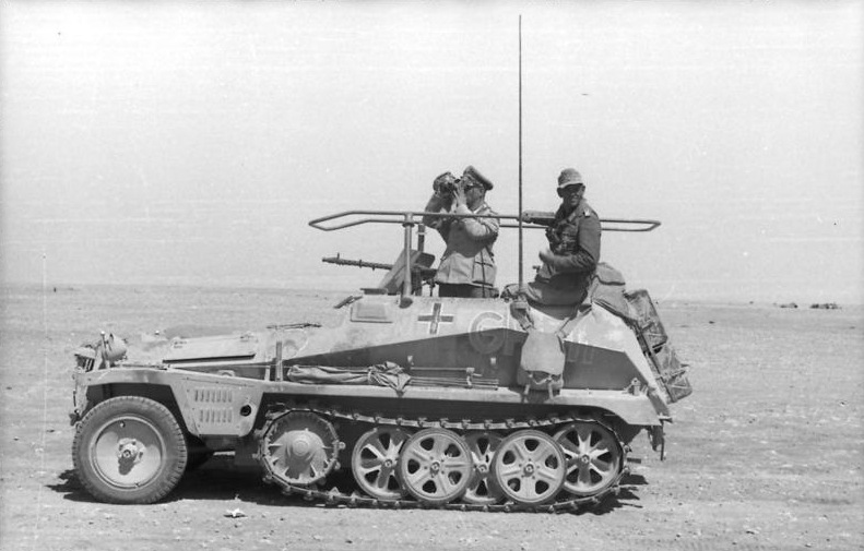 Generals Erwin Rommel and Fitz Bayerlein in a command vehicle Sd.Kfz. 250/3 "Greif", June 1942.